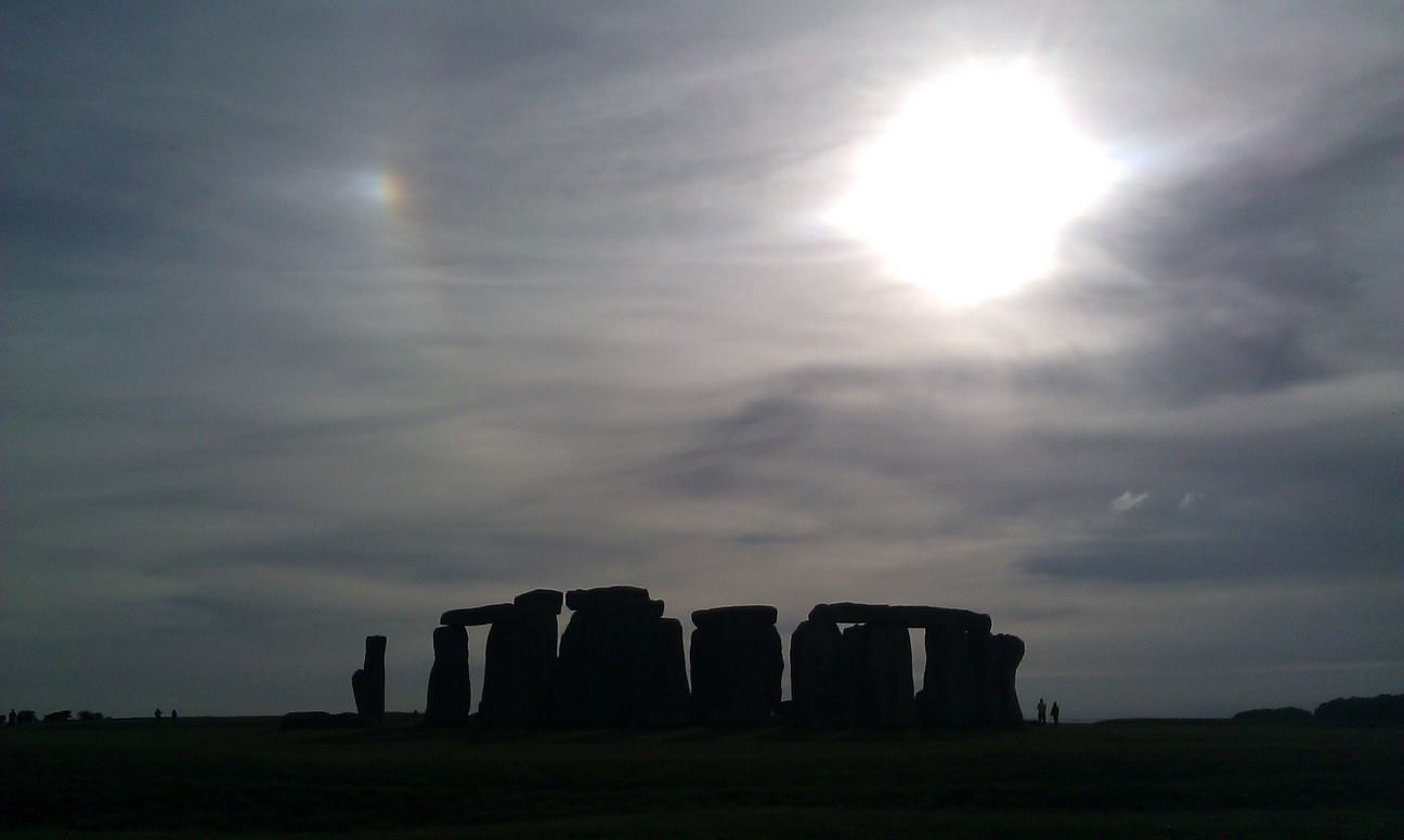 Photograph of a Sun dog at Stonehenge